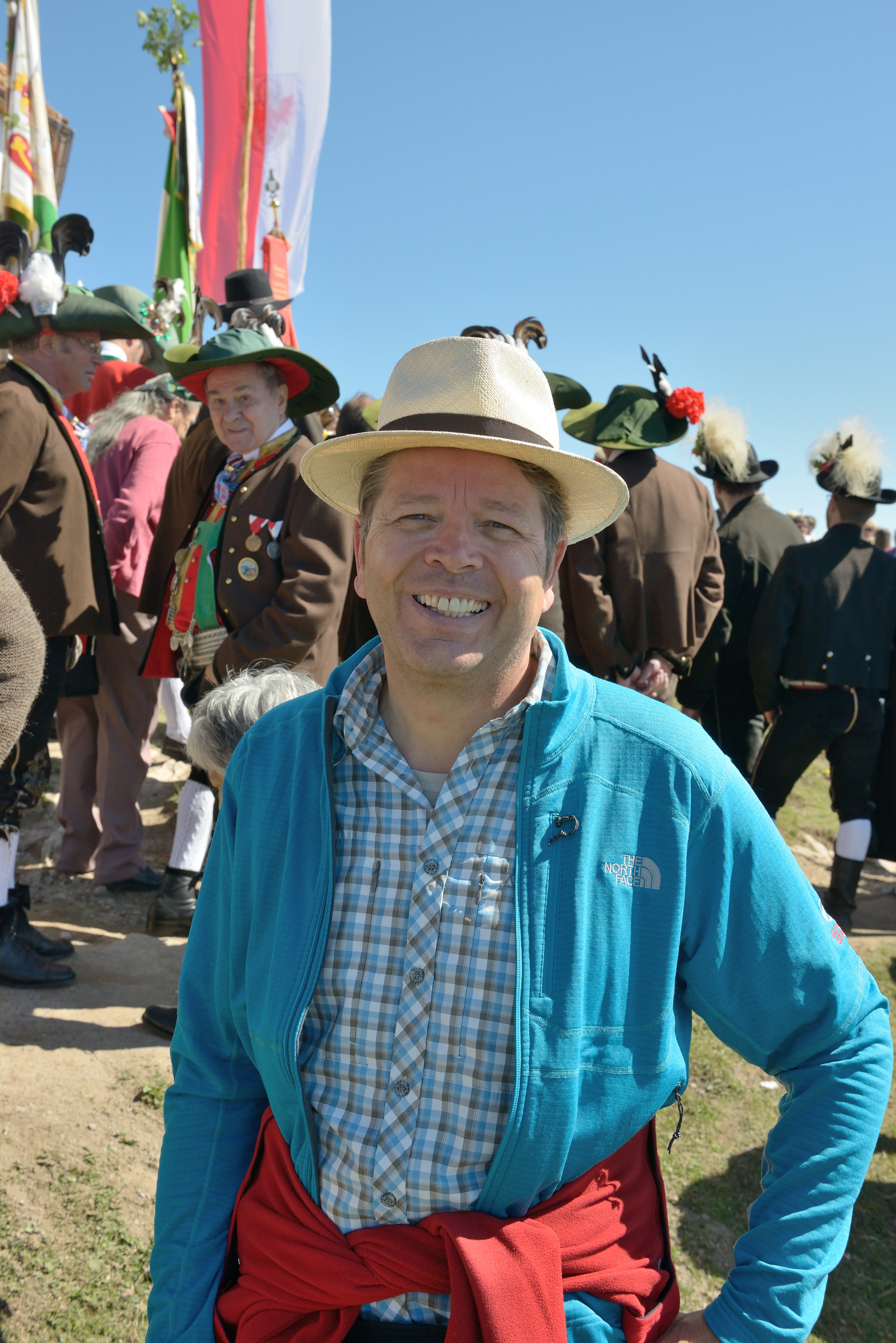 Pius Leitner, politician from South Tyrol